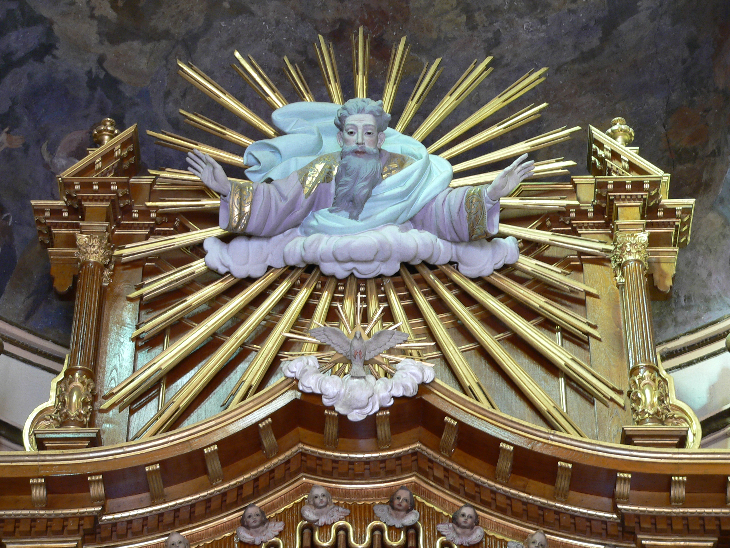 Hermitage Ermitorio del Calvario, Alcora